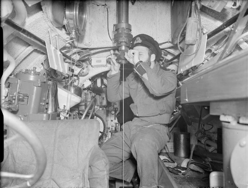 The Royal Navy during the Second World War Sub Lieutenant K C J Robinson, RNVR, of Crosby, Liverpool, a Commanding Officer in an X-craft at the periscope whilst sailing in Rothesay Bay.